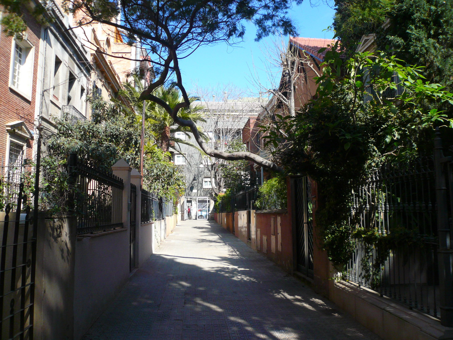 Sant Felip lane, Barcelona